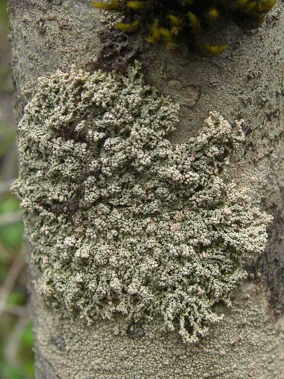 Lepolichen coccophorus (Mont.) Trevis. Image location: near Palena, Aisén, Chile Used references: Tim Wheeler For more information about this, see the observation page at Mushroom Observer.